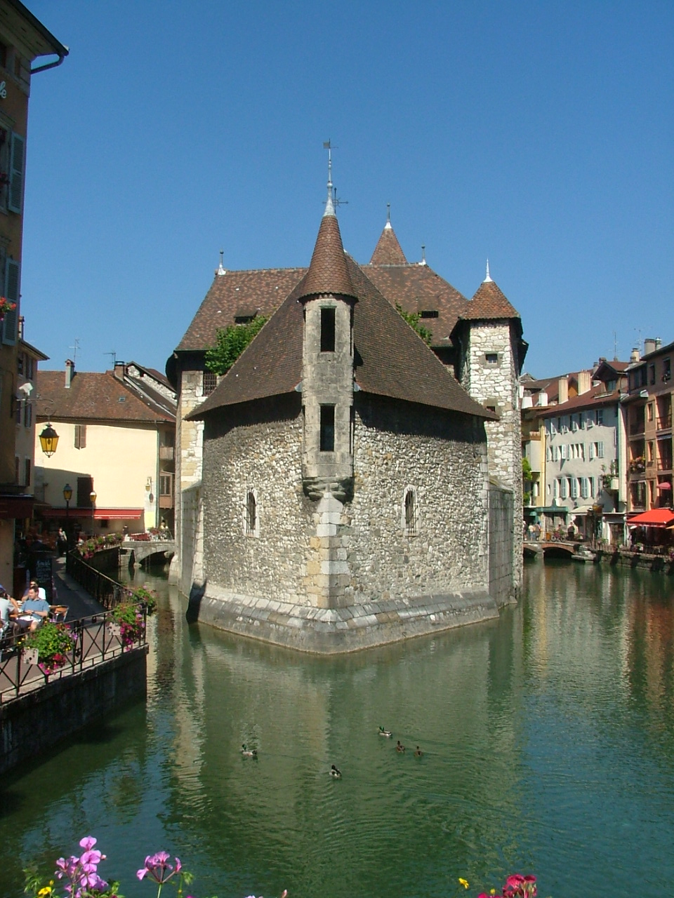 View of Palais de l'Isle in Annecy, France